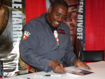 Ernie Hudson signing autographs at AdventureCon 2008 in Ghostbusters-suit